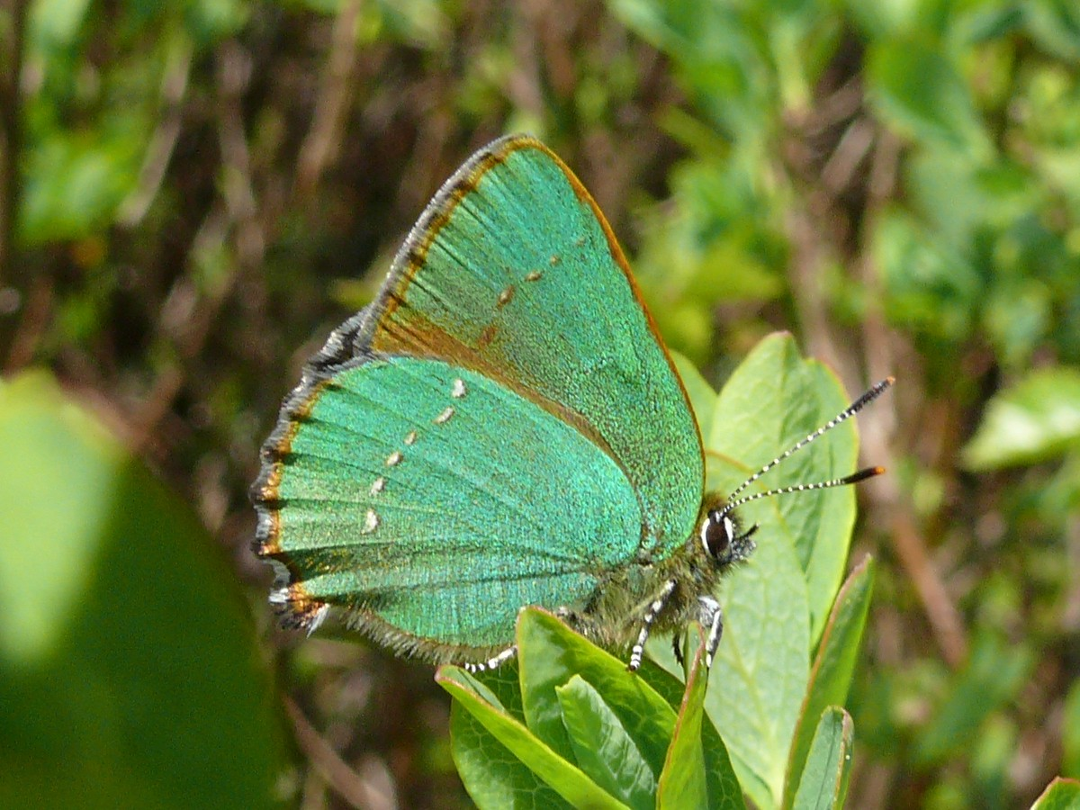 Green Hairstreak